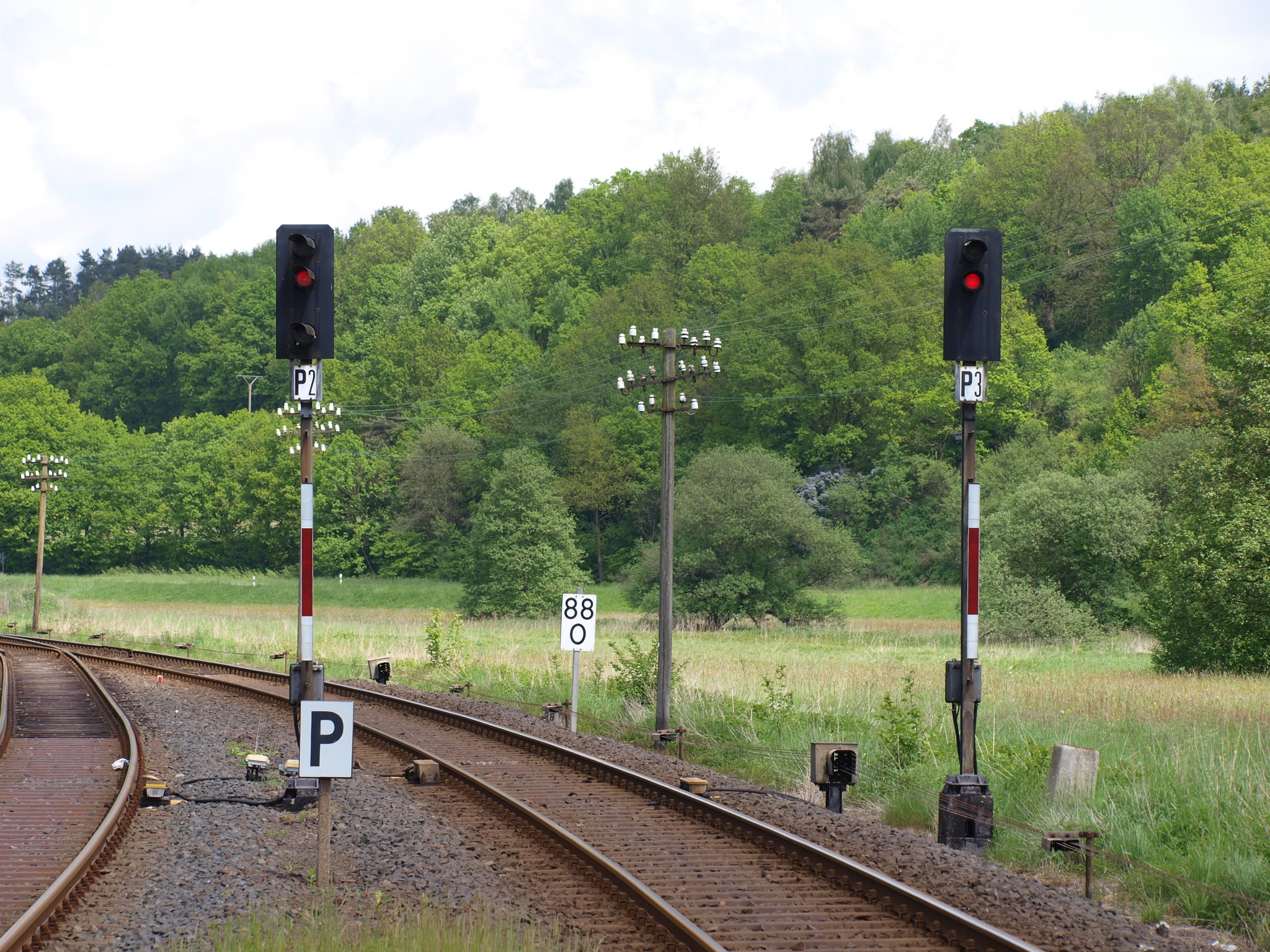 German H/V light railway signals in Münchhausen at the Burgwaldbahn railway